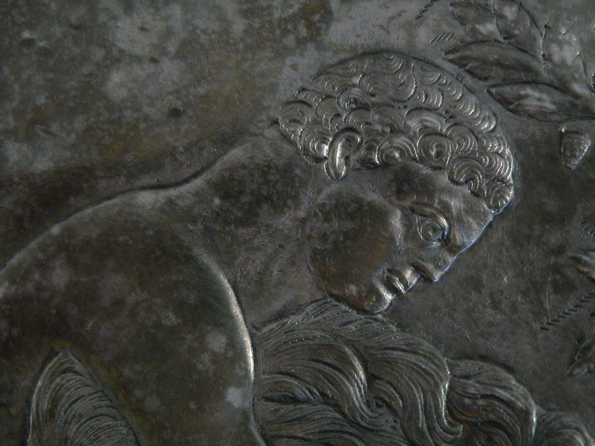 Heracles fighting the Nemean Lion. Silver missorium, 6th century CE (?).